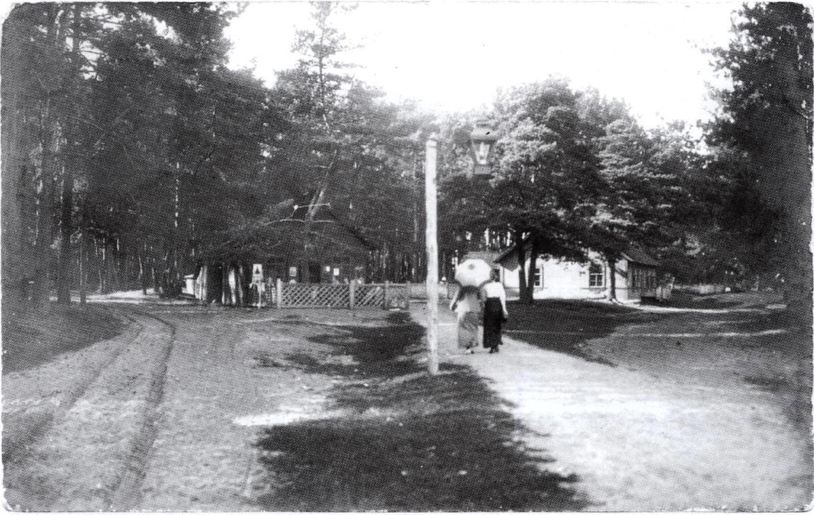 Kursaal of sanatorium in Cherekha.